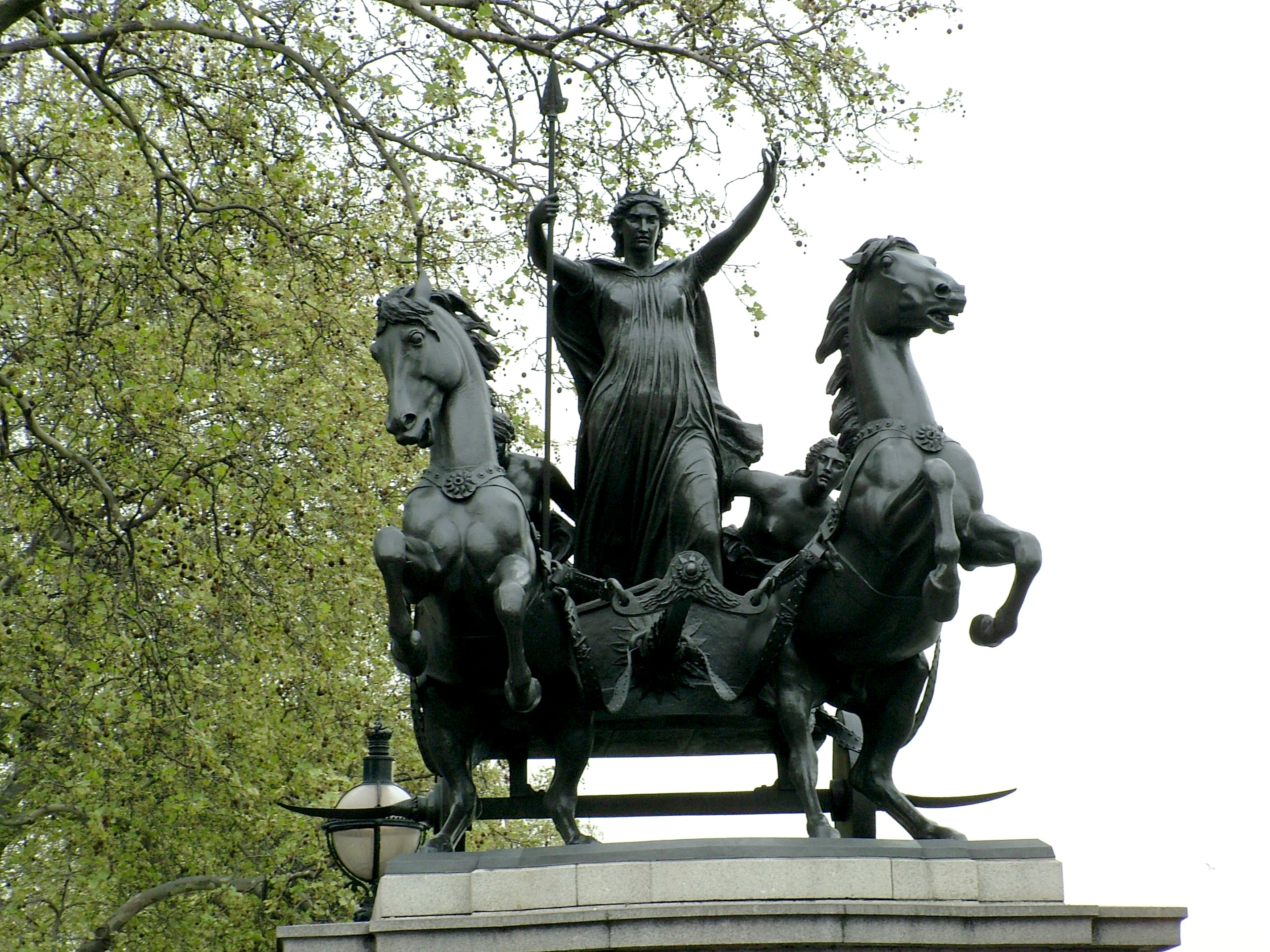 Statue of Boudicca by Thomas Thornycroft near Westminster pier. Creator Kiss Tamás:hu:User:Kit36a